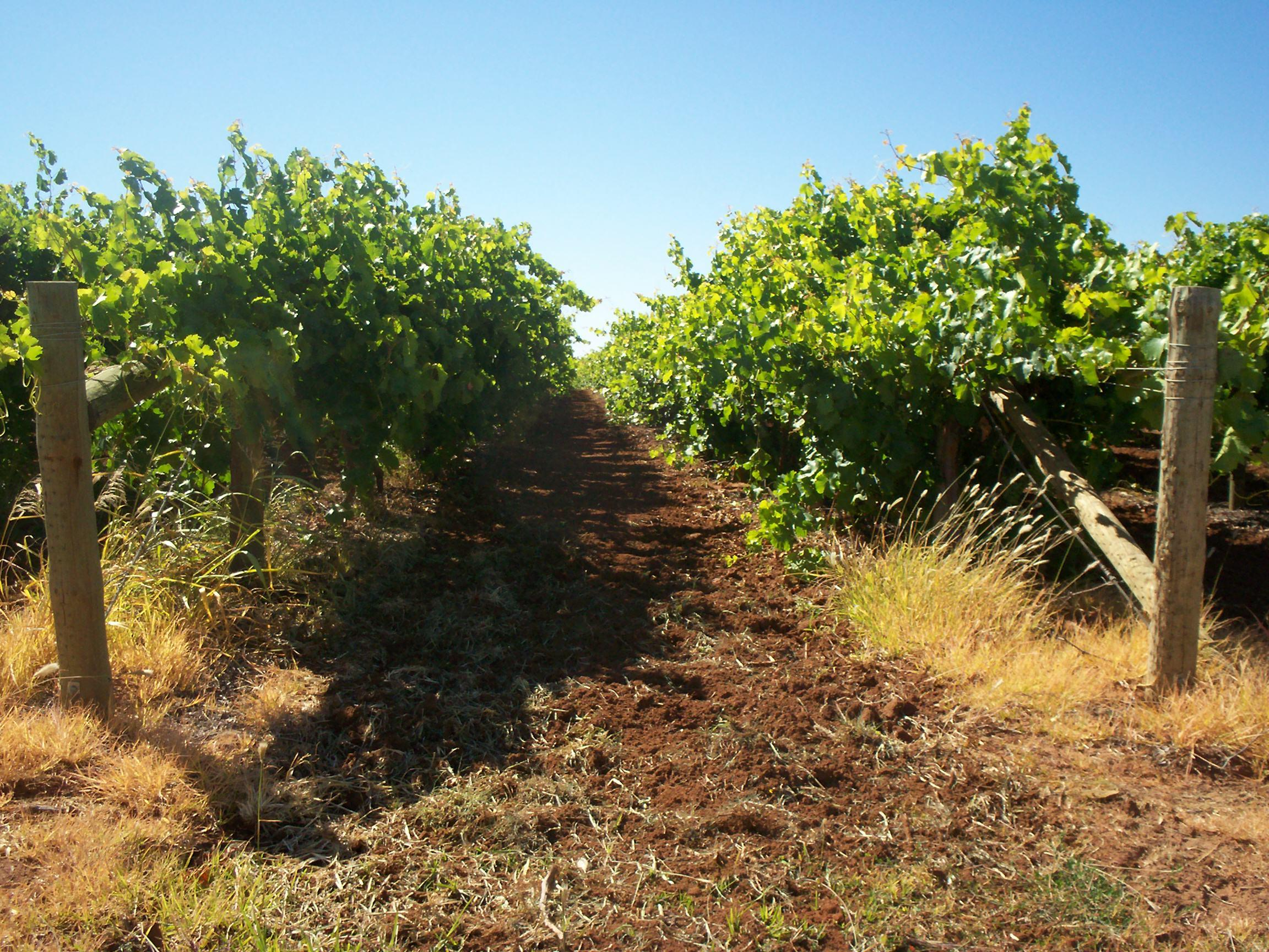 Photograph taken by myself of grape vines in Mildura, Victoria, December 27, 2006 Category:Images of Victoria